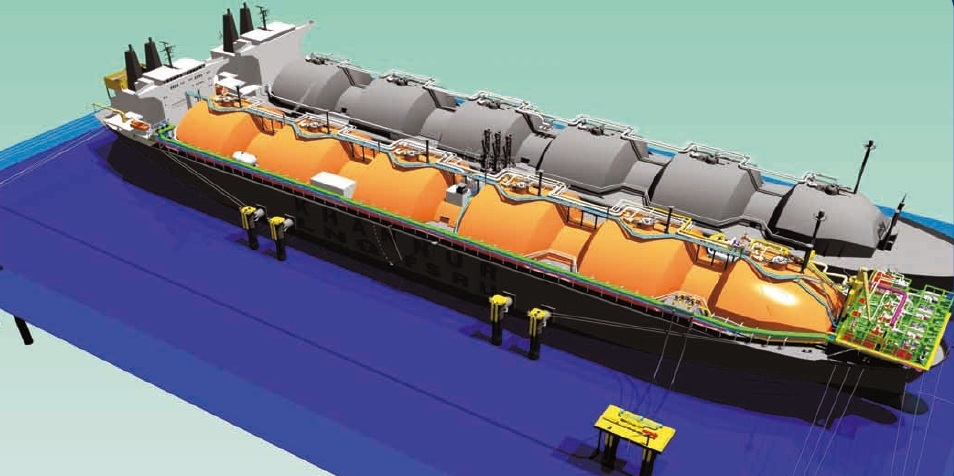 Floating storage and regasification unit. Created by cutting image